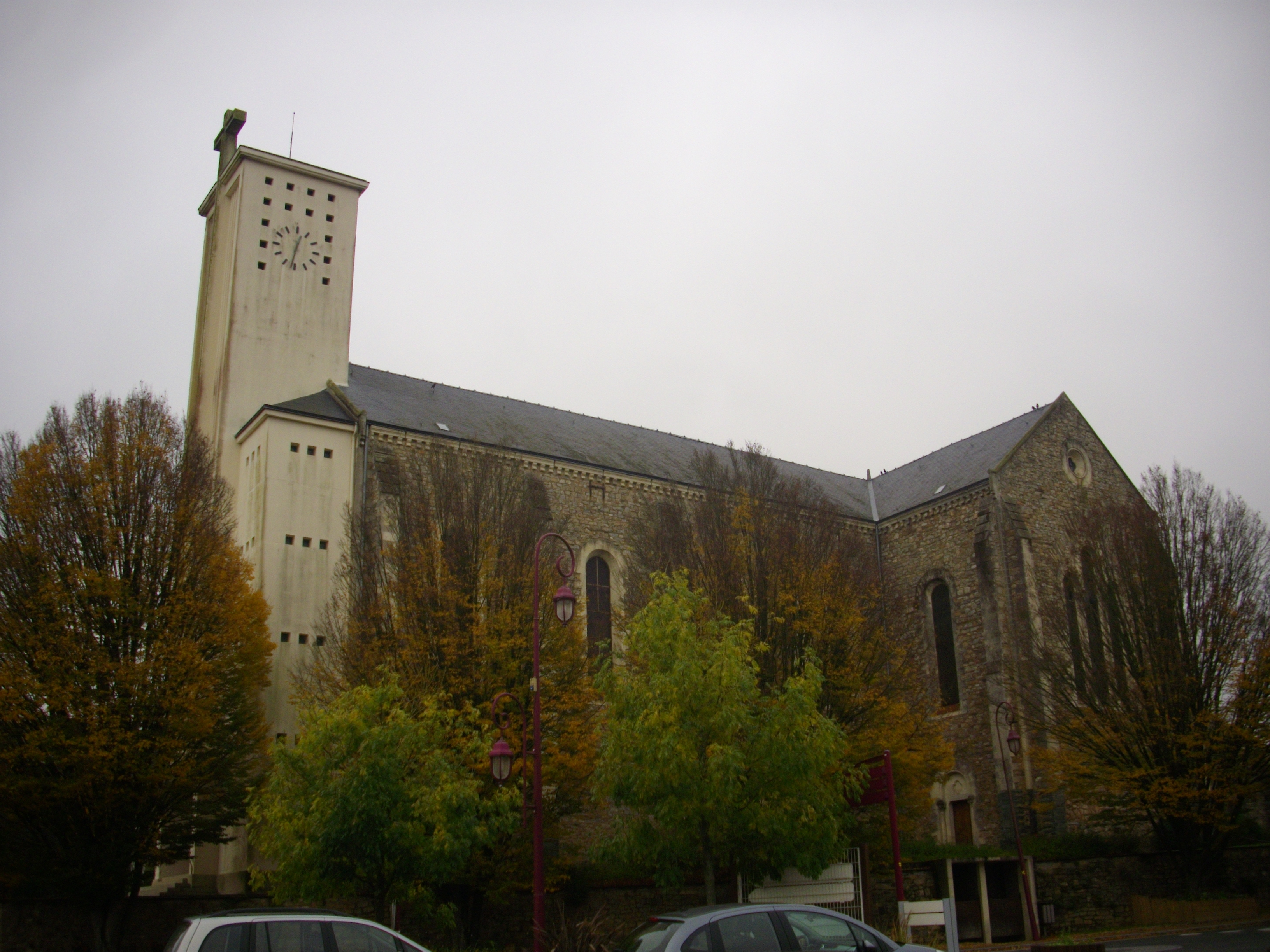 Saint Martin church of Erbray (Loire-Atlantique, France)